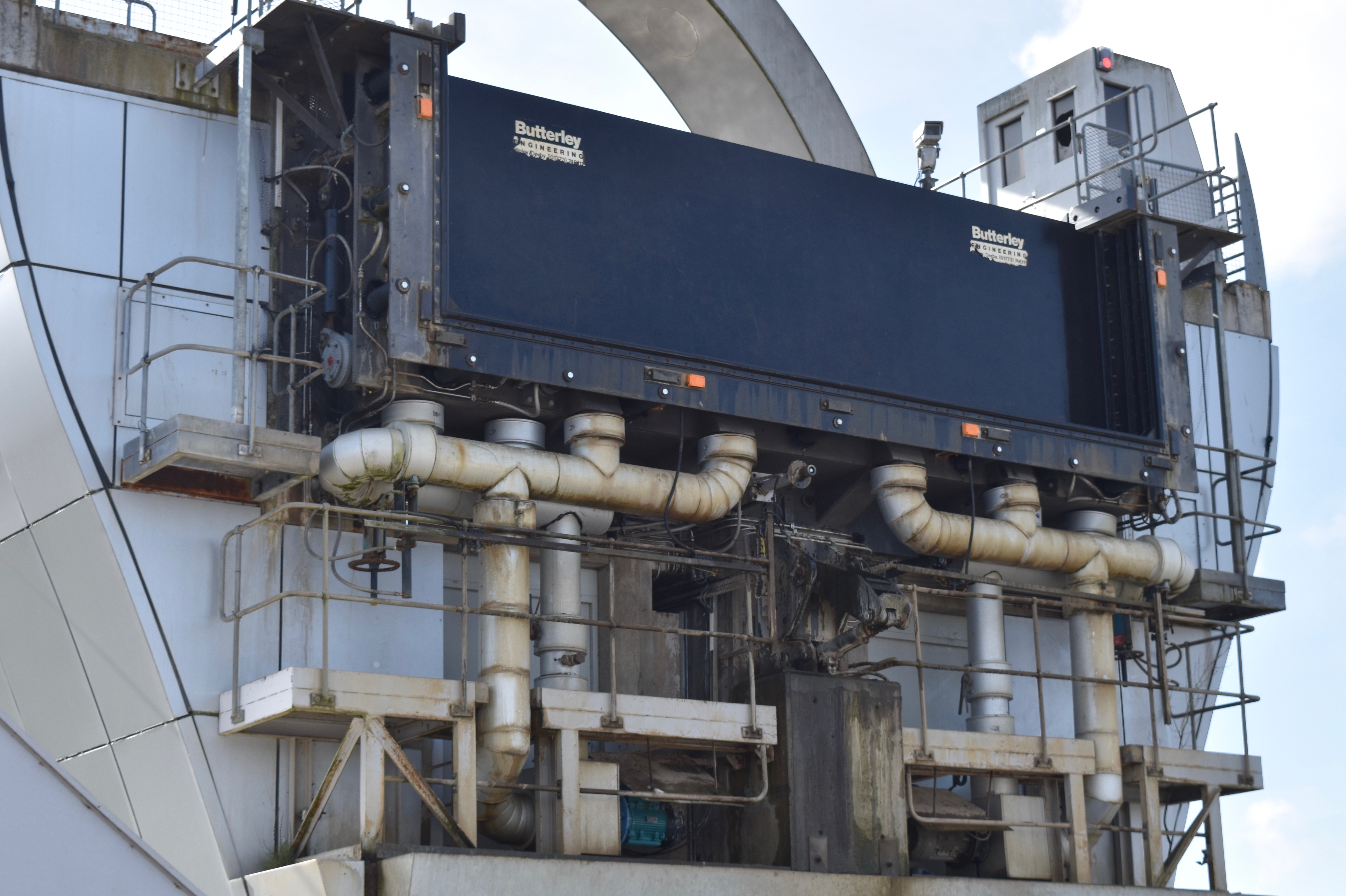 Falkirk Wheel Upper aqueduct door with pumping system. The locking mechanisms are directly below the middle of the black door.